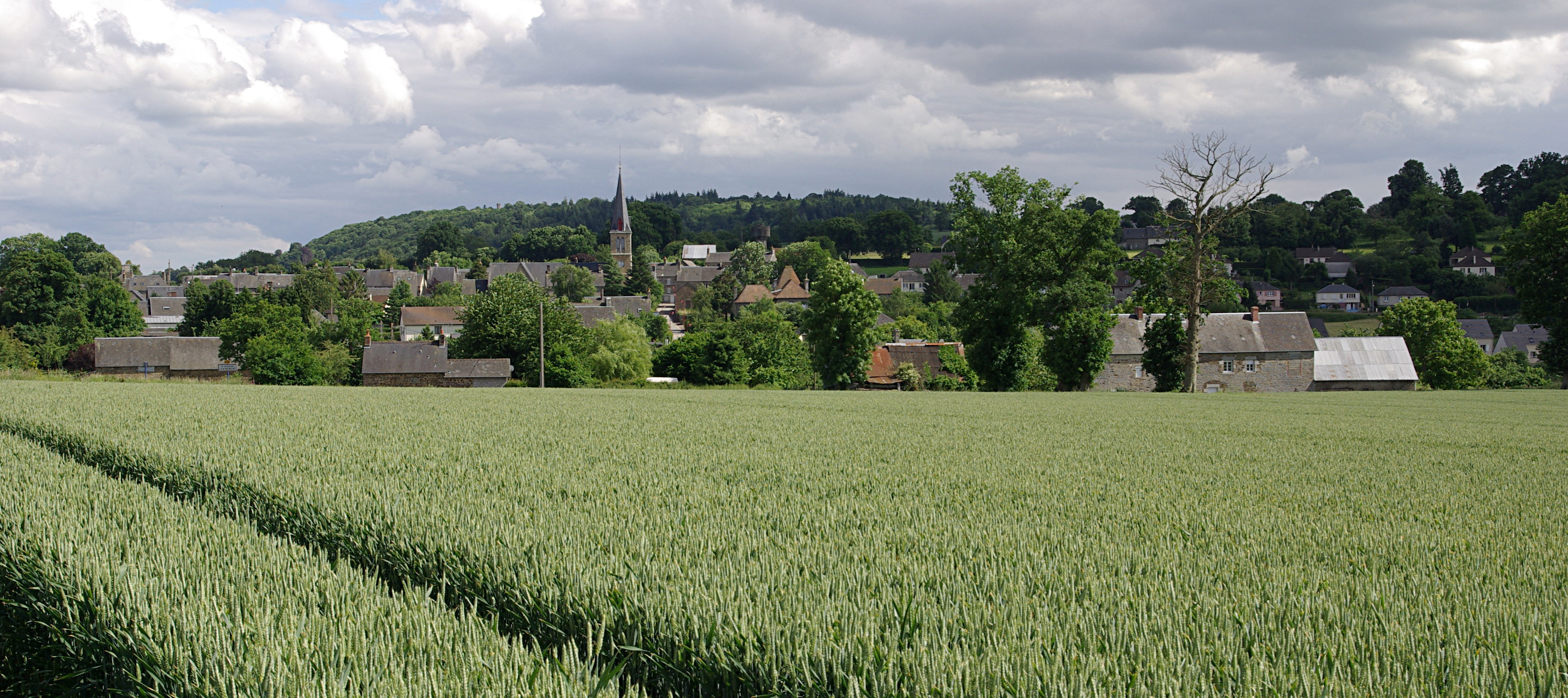 Saint Pierre d'Entremont village, Orne 61 France